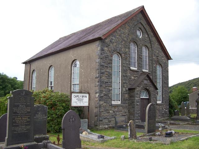 Capel-y-Bryn. Capel-y-Bryn sits on the B4338 in Cwrtnewydd.